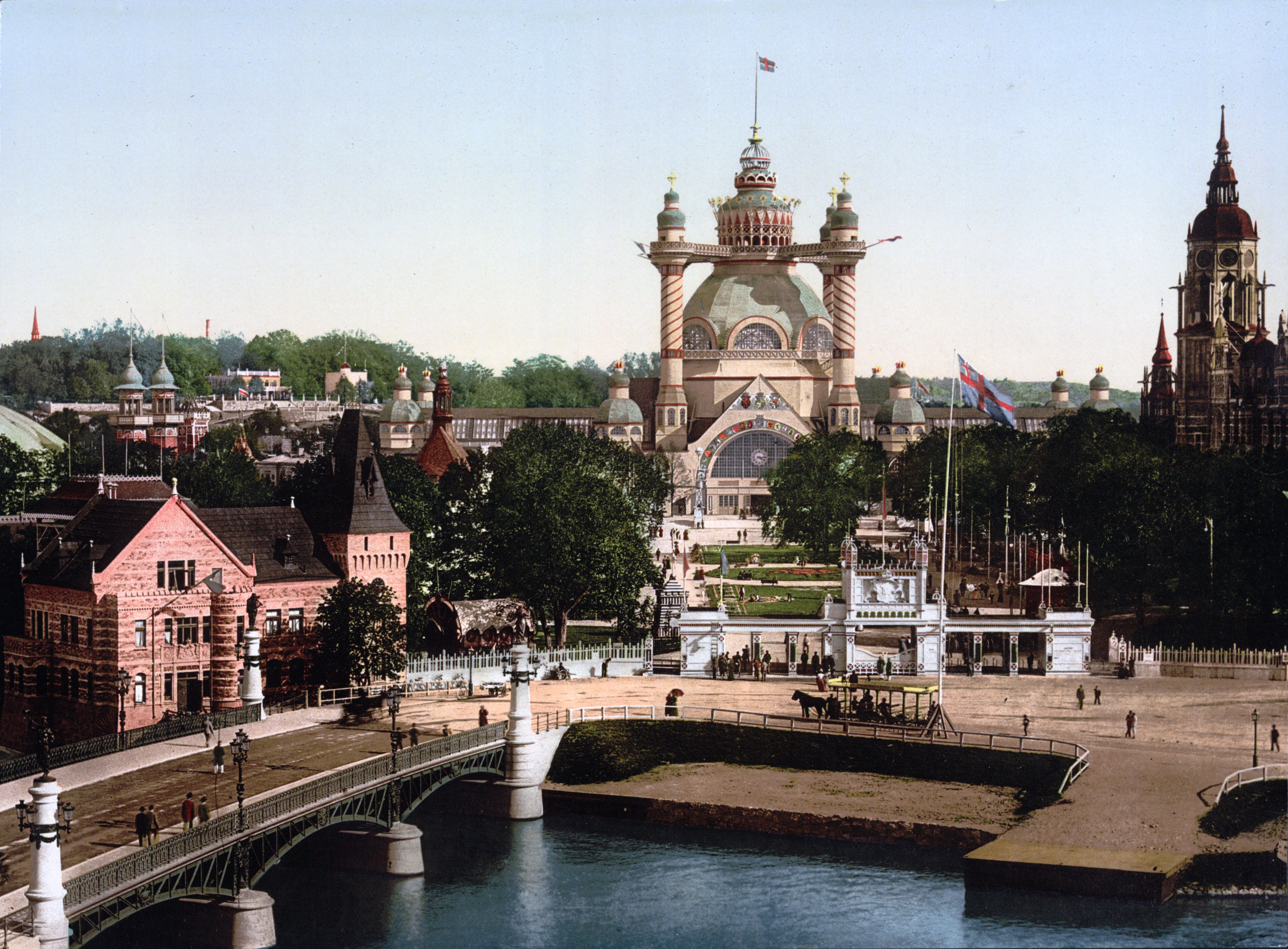 Photochrom print of the Stockholm Exposition of 1897